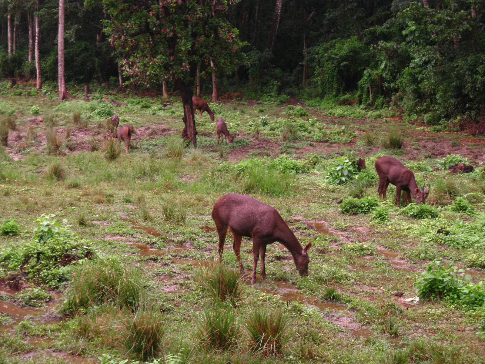 Chitwan National Park of Nepal.